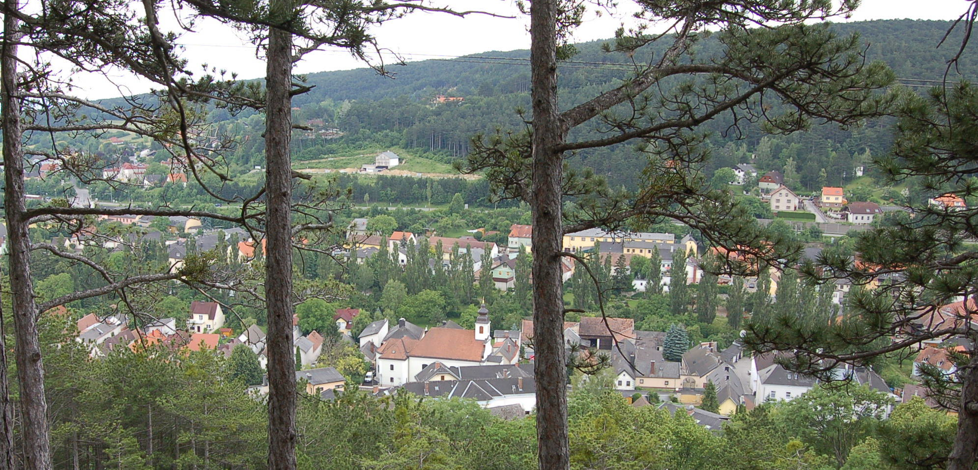 Wöllersdorf, Lower Austria